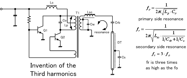 Inverter Circuit for the CCFL